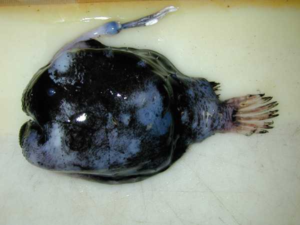 A deep-sea anglerfish (Himantolophus sp.) collected during the 2002 Bear Seamount cruise.